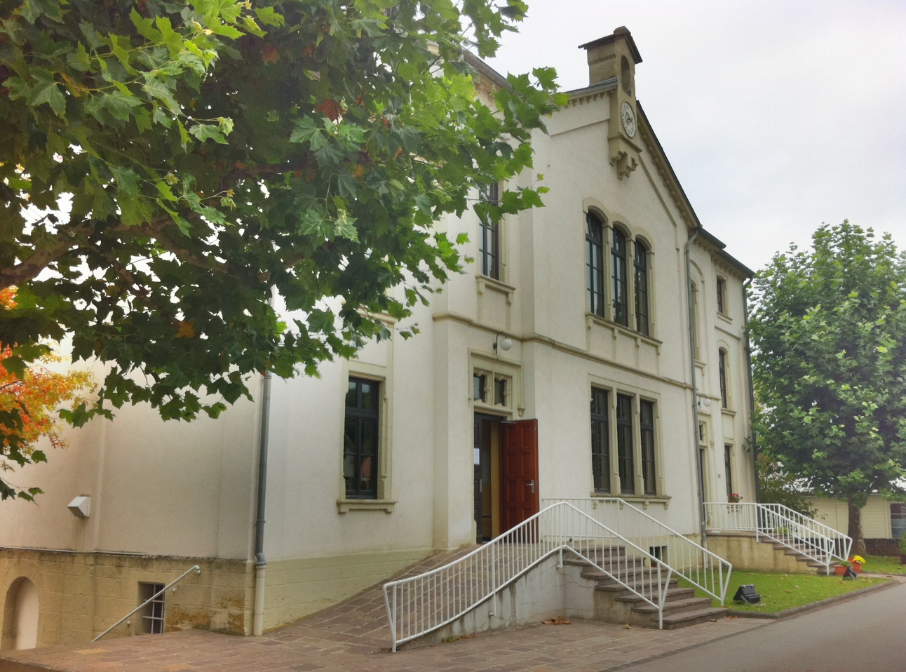 Old School in Hielem at 142-144, route de Luxembourg.